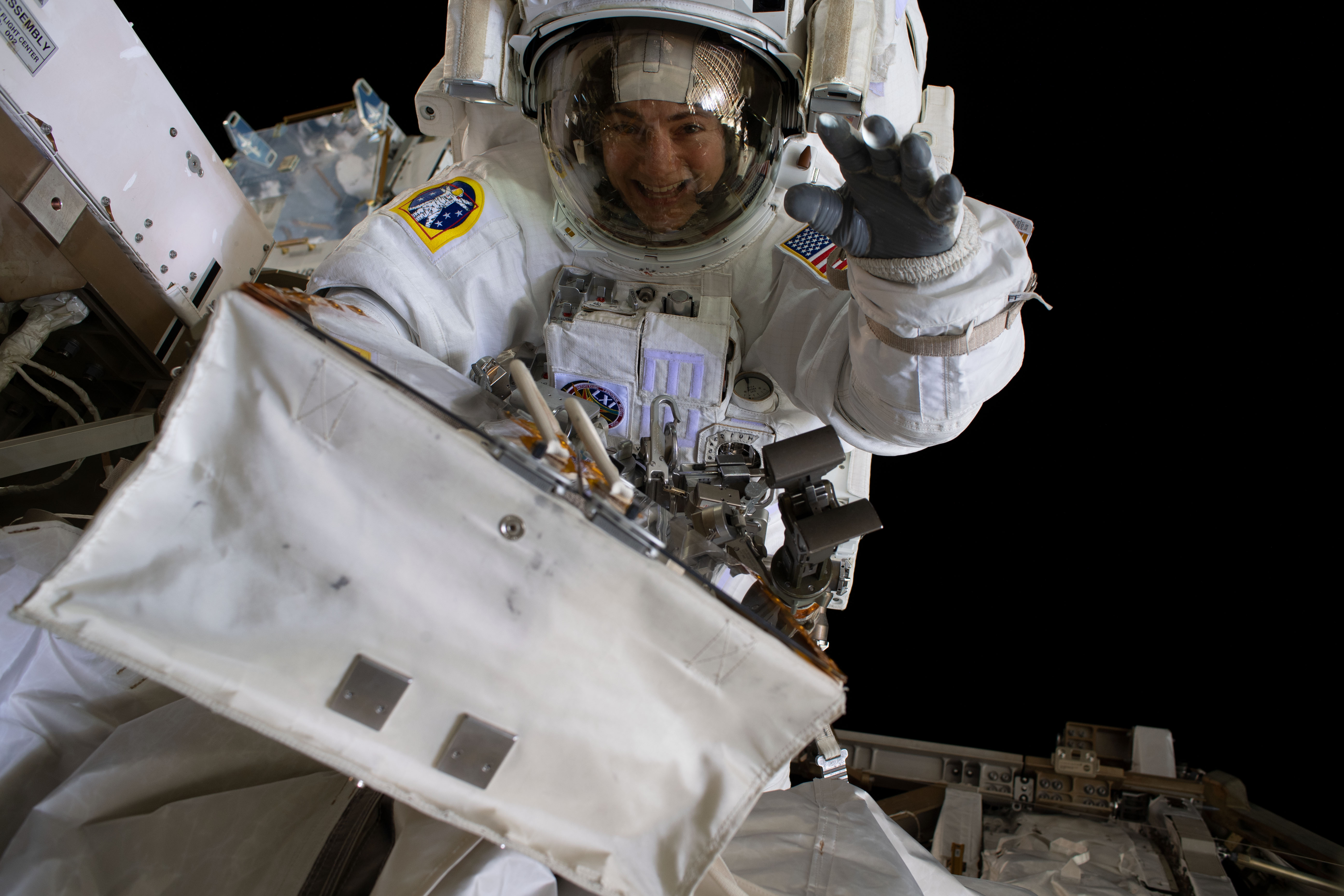 NASA astronaut Jessica Meir waves at the camera during a spacewalk with fellow NASA astronaut Christina Koch (out of frame). They ventured into the vacuum of space for seven hours and 17 minutes to swap a failed battery charge-discharge unit (BCDU) with a spare during the first all-woman spacewalk. The BCDU regulates the charge to the batteries that collect and distribute solar power to the orbiting lab’s systems. 2019-10-18. iss061e011841.